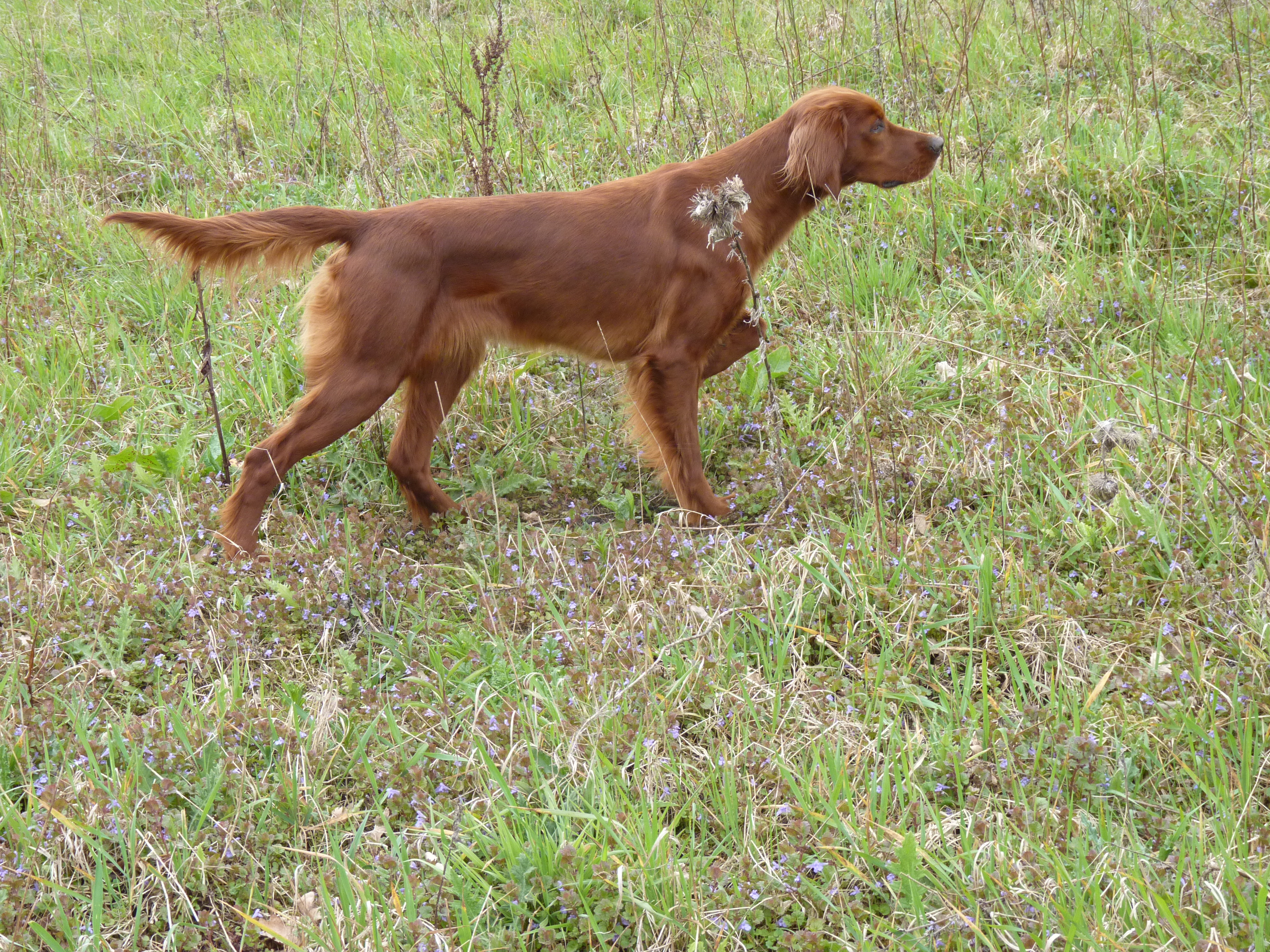 Irish setter Giulla O'Conloch pointing pheasant